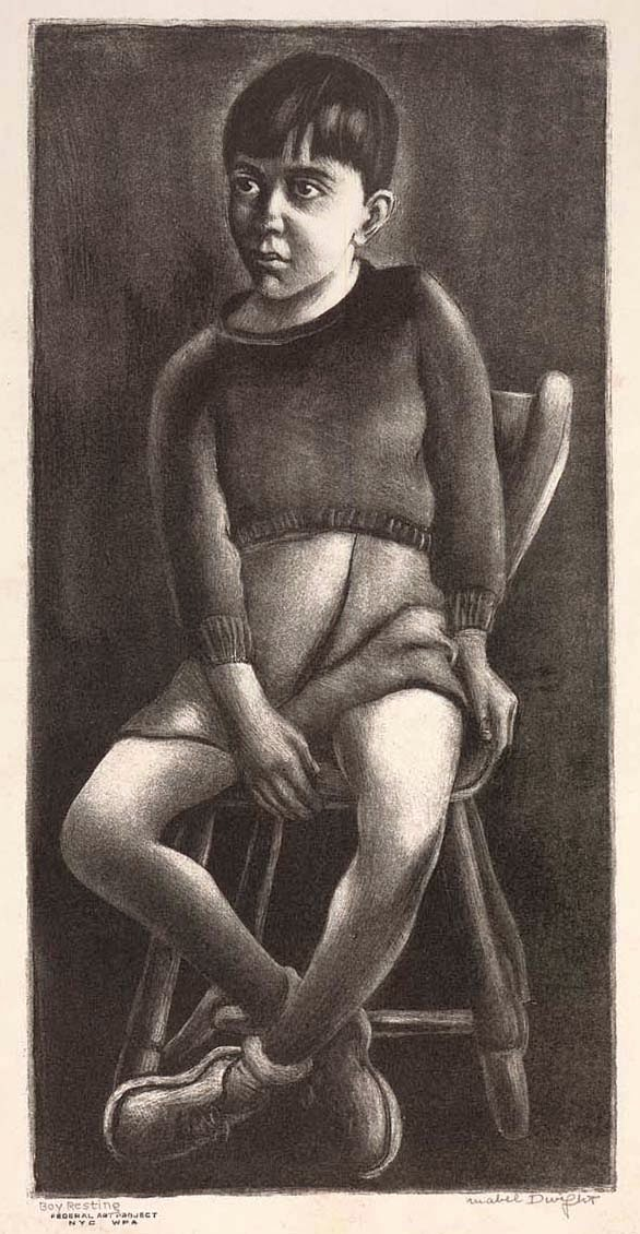 Mabel Dwight, Boy Resting, 1939, lithograph on stone, 31.2 x 15.6 cm, edition of 25 printed by the Federal Art Project